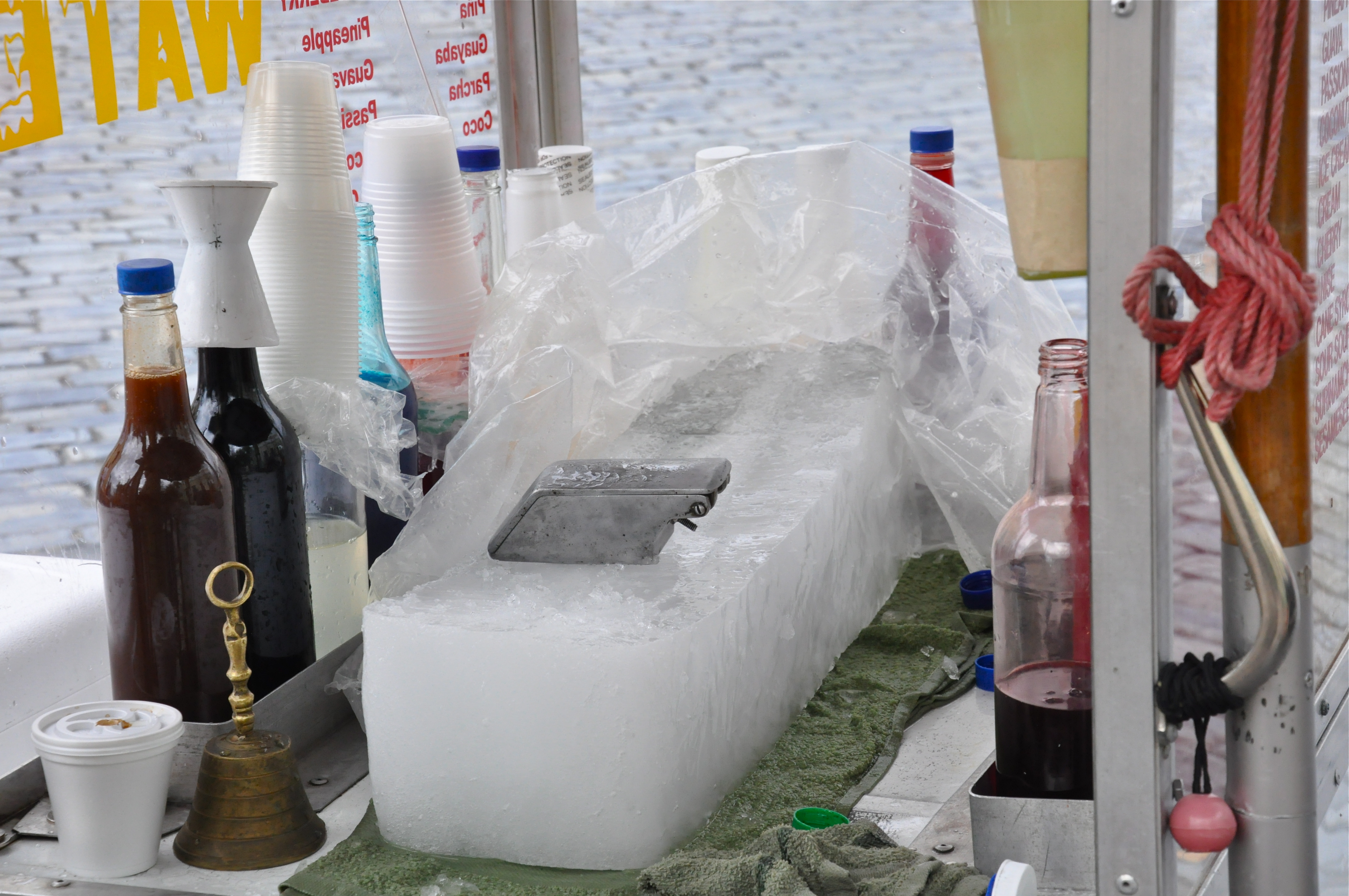 Piraguas, Puerto Rican shave ice with natural juices